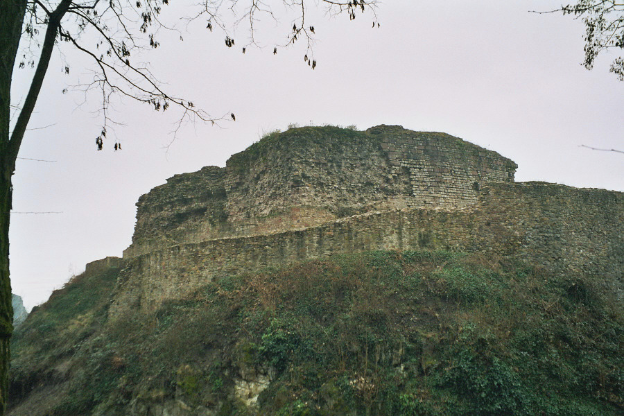 Schauenburg in the town of Dossenheim, Germany